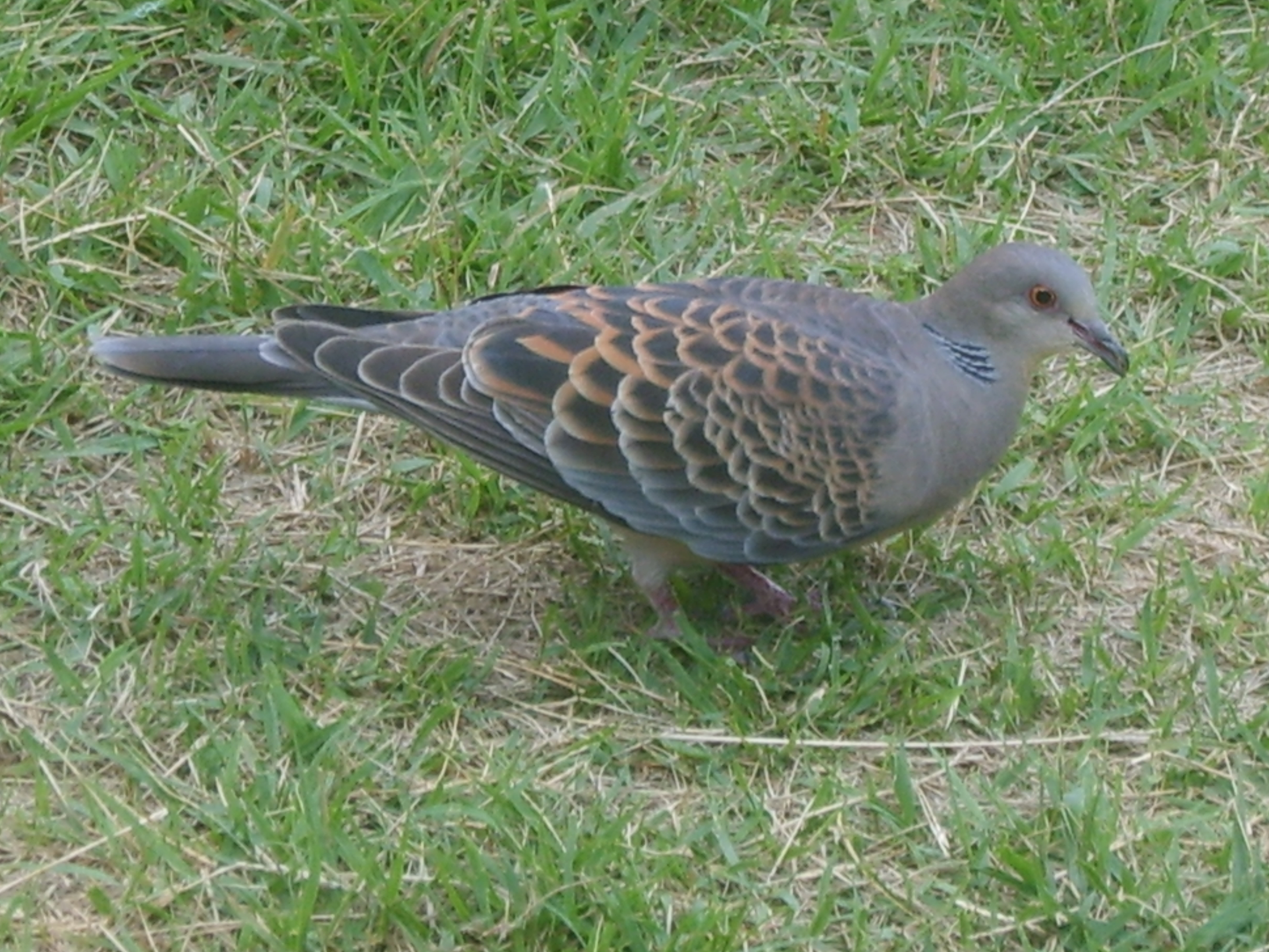 in Seoul, Korea